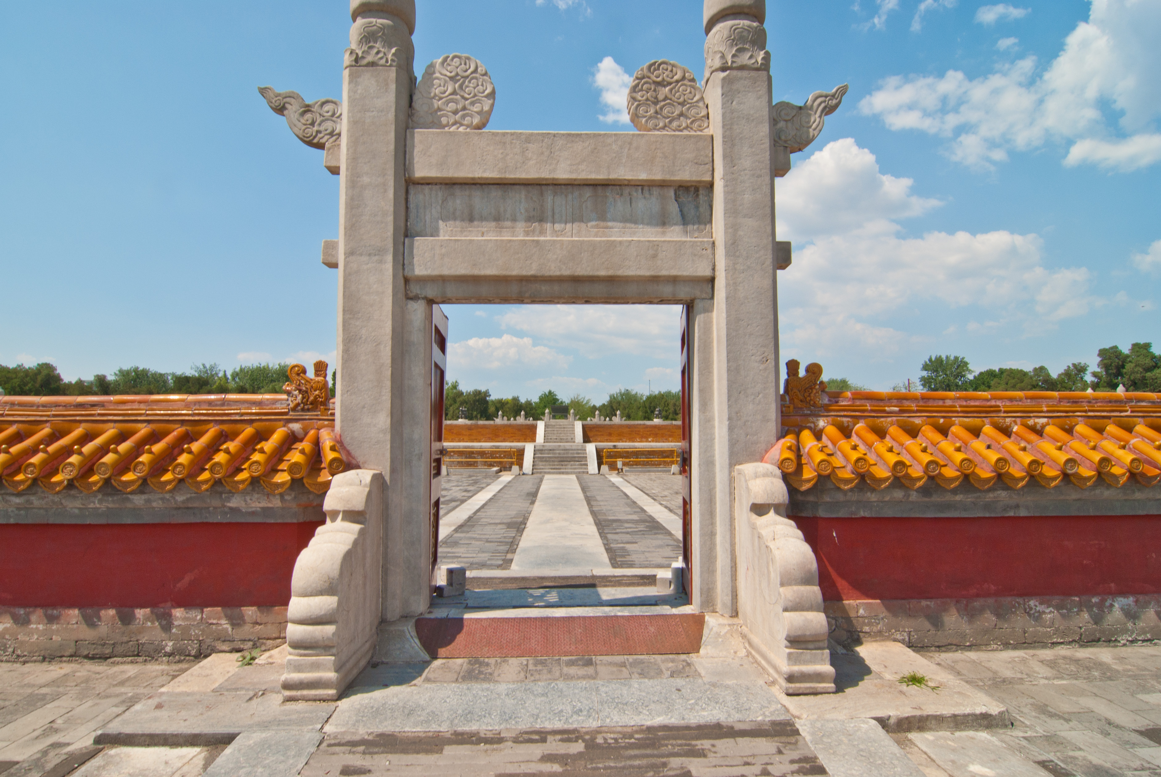 Temple of Earth